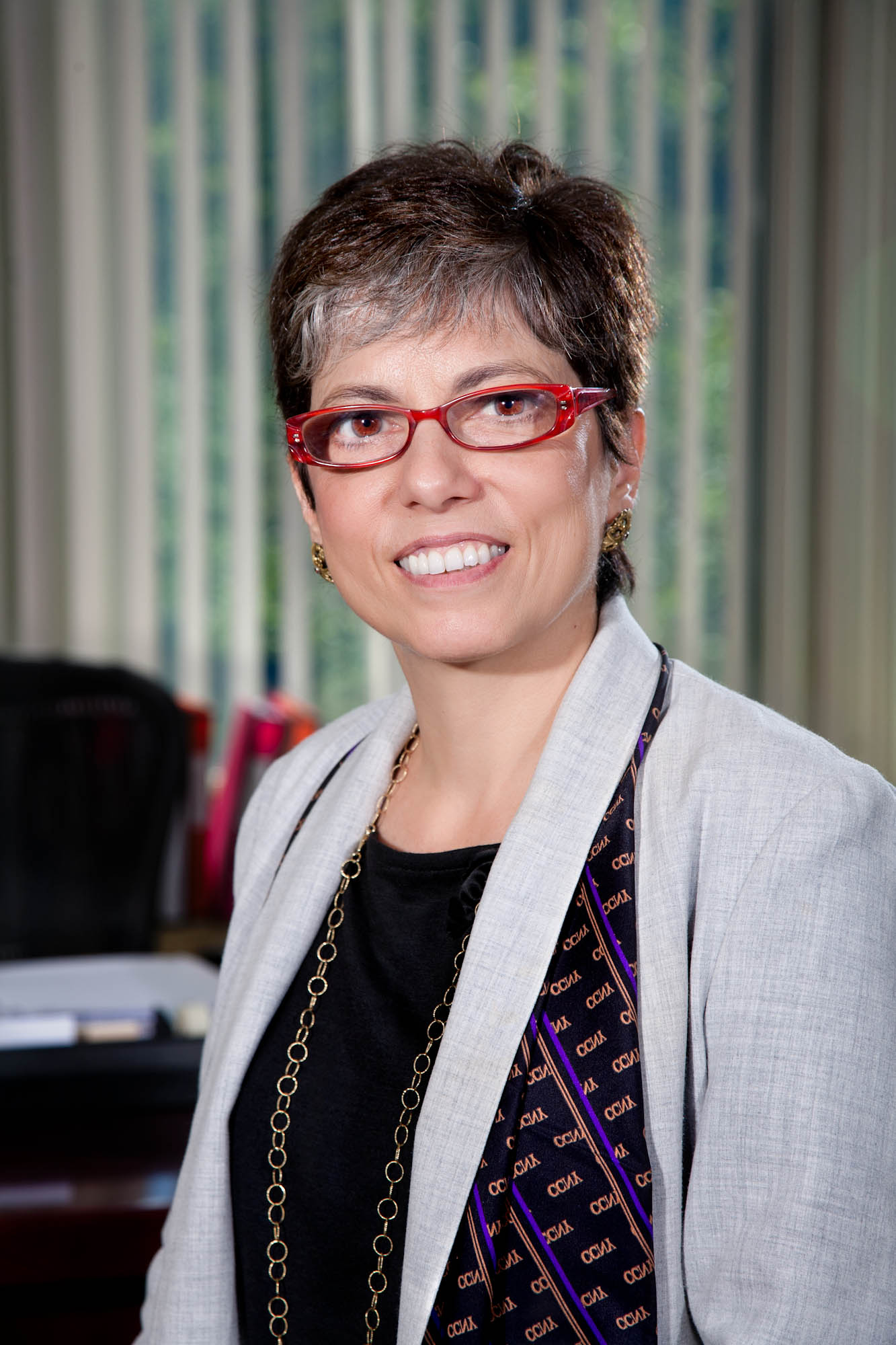 Photograph of Lisa Staiano-Coico after she became the president of the City College of New York in August 2010.